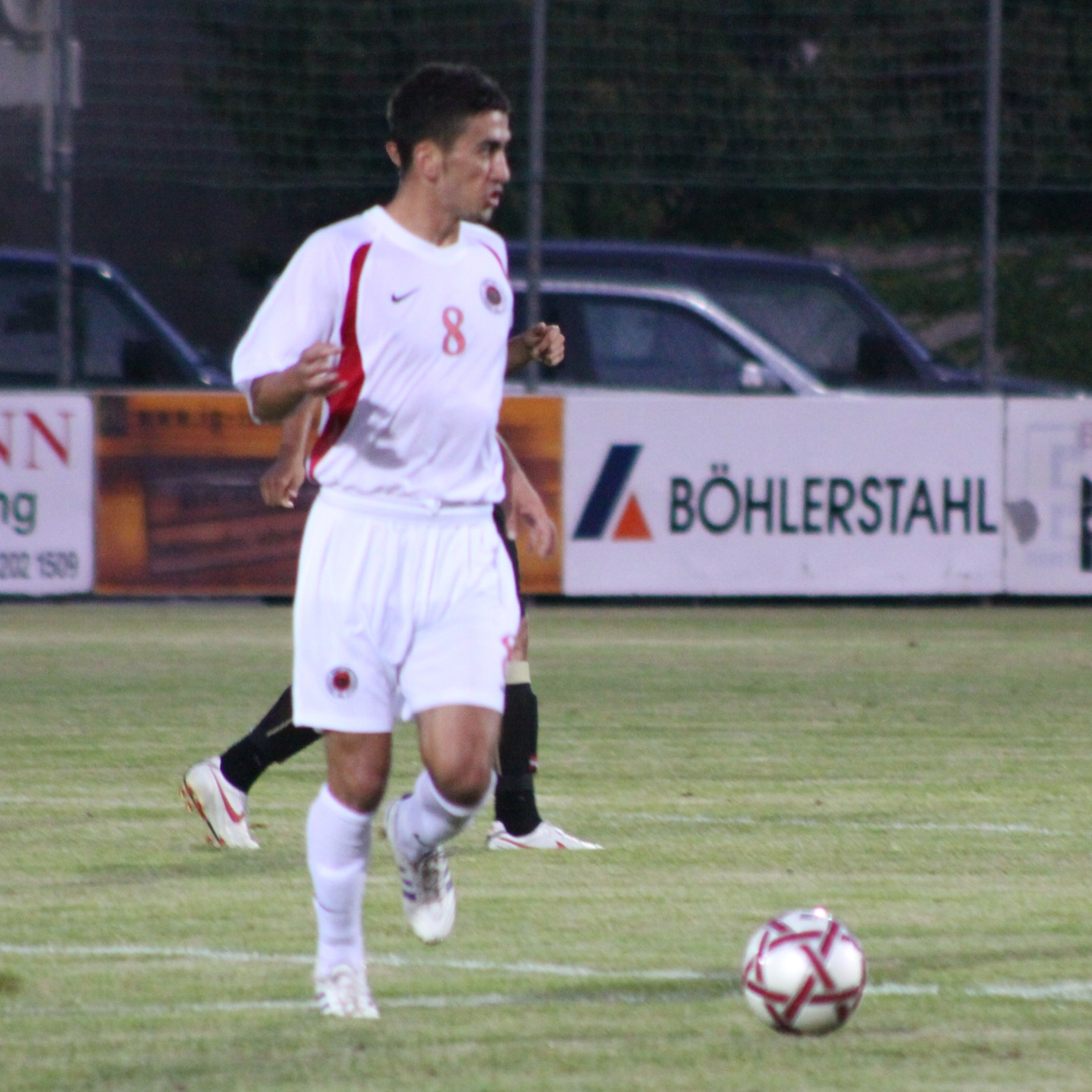 Sabien Lila (KF Tirana) - Albania national under-21 football team (2)